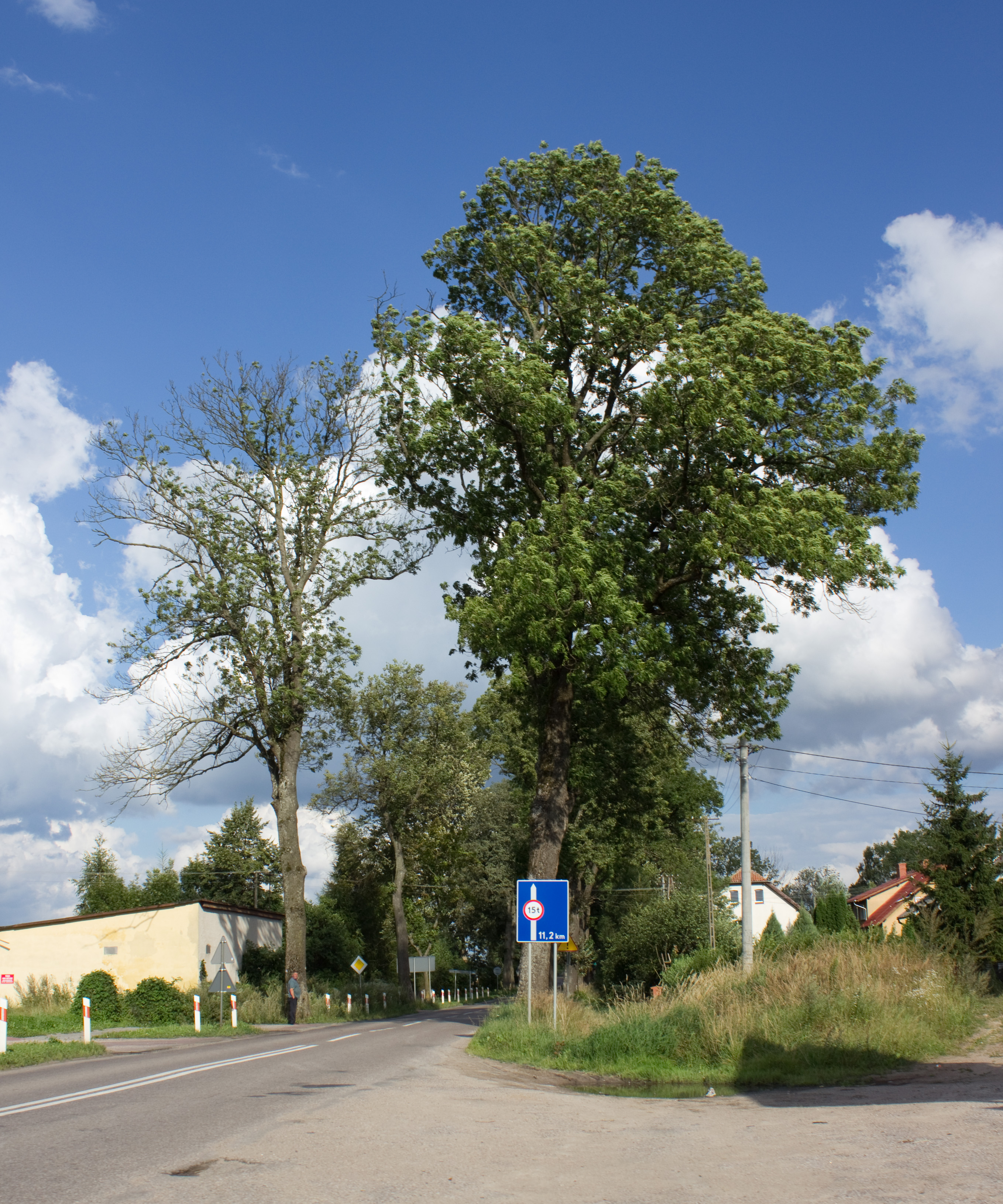 Sterławki Wielkie, gmina Ryn, powiat giżycki, Warmian-Masurian Voivodeship